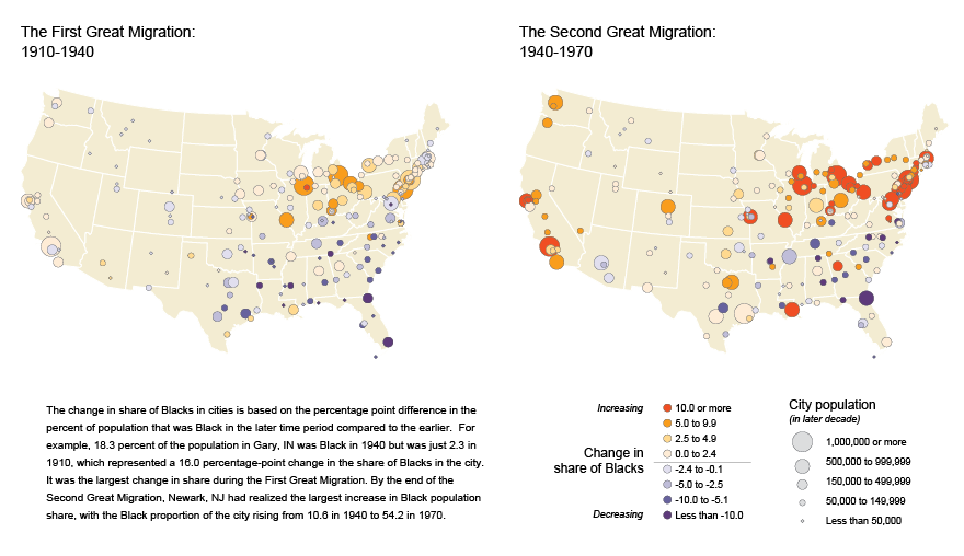 The Great Migration generally refers to the massive internal migration of Blacks from the South to urban centers in other parts of the country. Between 1910 and 1970, an estimated 6 million Blacks left the South. This graphic compares the early migration (1910-1940), sometimes referred to as the First Great Migration, and the later (1940-1970) also known as the Second Great Migration. In the early 20th century, strict legislation limited immigration into the U.S. and brought about a shortage of labor in many industrial and manufacturing centers in the Northeast and Midwest. These cities became common destinations for Black migrants from the South. Cities that experienced substantial changes in racial composition between 1910 and 1940 include Chicago, Detroit, New York City, and Philadelphia. During and after WWII, Black migrants flooded into many of the cities that were destinations before the war, following friends and relatives that had made the journey earlier. Poor economic conditions in the Jim Crow South spurred a larger migration flow than was the case in the 1910-to-1940 period and resulted in the creation of large Black population centers in many cities across the Northeast, Midwest, and West. NOTE: Data are from decennial censuses, 1910 through 1970. Population counts are based on unrevised numbers. Data for the Black population for cities in Alaska and Hawaii were not available in 1940 or earlier decades. Cities shown are those that were either in the top 100 cities in the country or top 3 of a state and had a Black population of at least 100 people. These criteria were placed on 1940 data for the First Great Migration and 1970 data for the Second Great Migration.